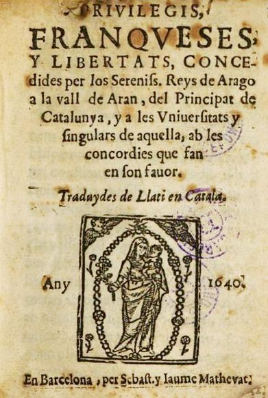 Coverpage of the Privilegis, franqueses i llibertats of the Val d'Aran (Occitania)